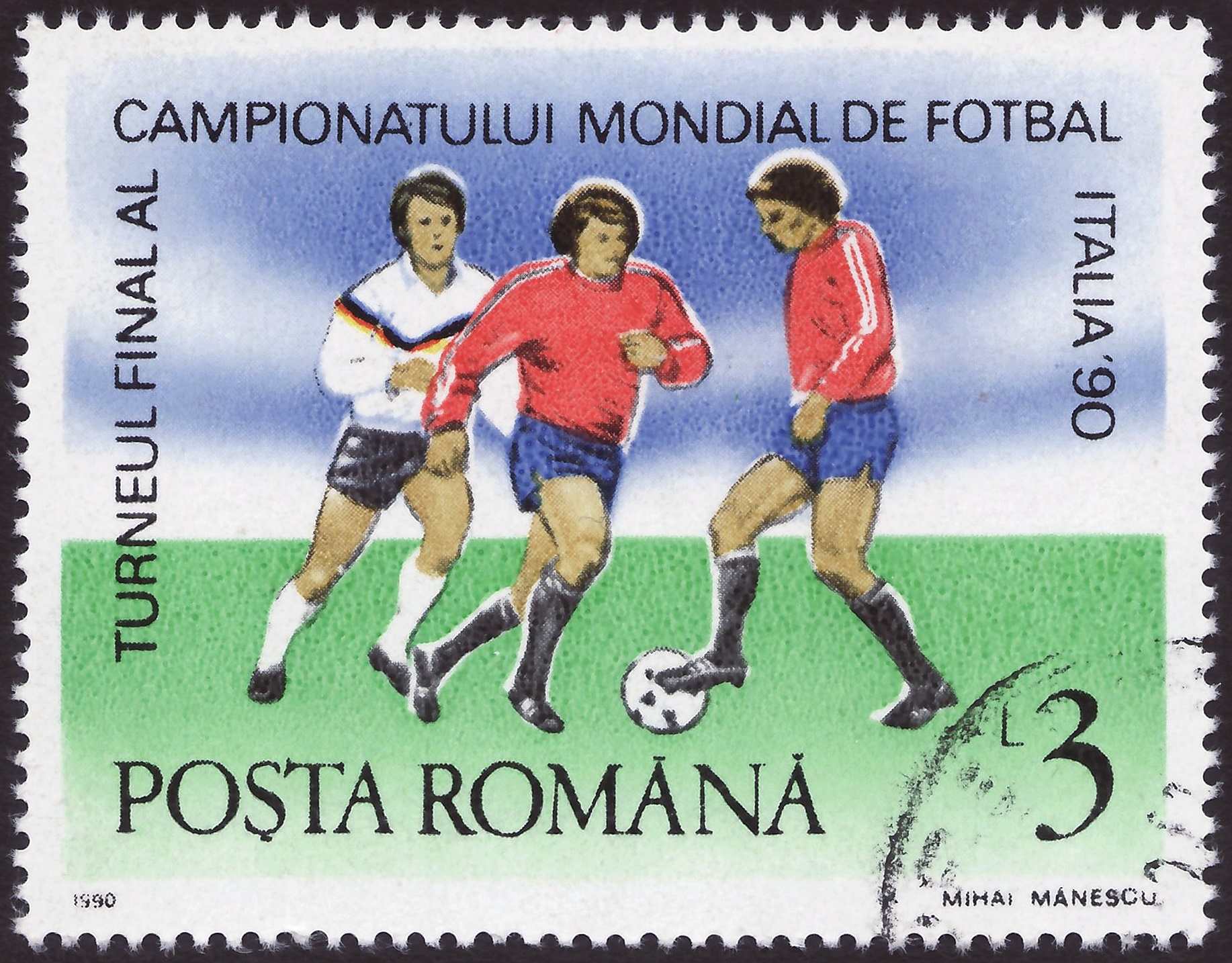 Stamp of Romania; 1979; commemorative stamp of the issue "1990 World Championship Soccer in Italy (ITALIA'90)"; stamp motive with a scene from the match of the Group D: Germany vs United Arab Emirates (This match took place on 15 June 1990 in Milan.); stamp postmarked Stamp: Michel: No. 4558; Yvert & Tellier: No. 3888; Scott: No. 3606 Color: multicolored Watermark: none Nominal value: 3 L (Lei) Postage validity: from 7 May 1990 until ? Stamp picture size (printed area of a single stamp without signature line): 49.5 x 36.5 mm